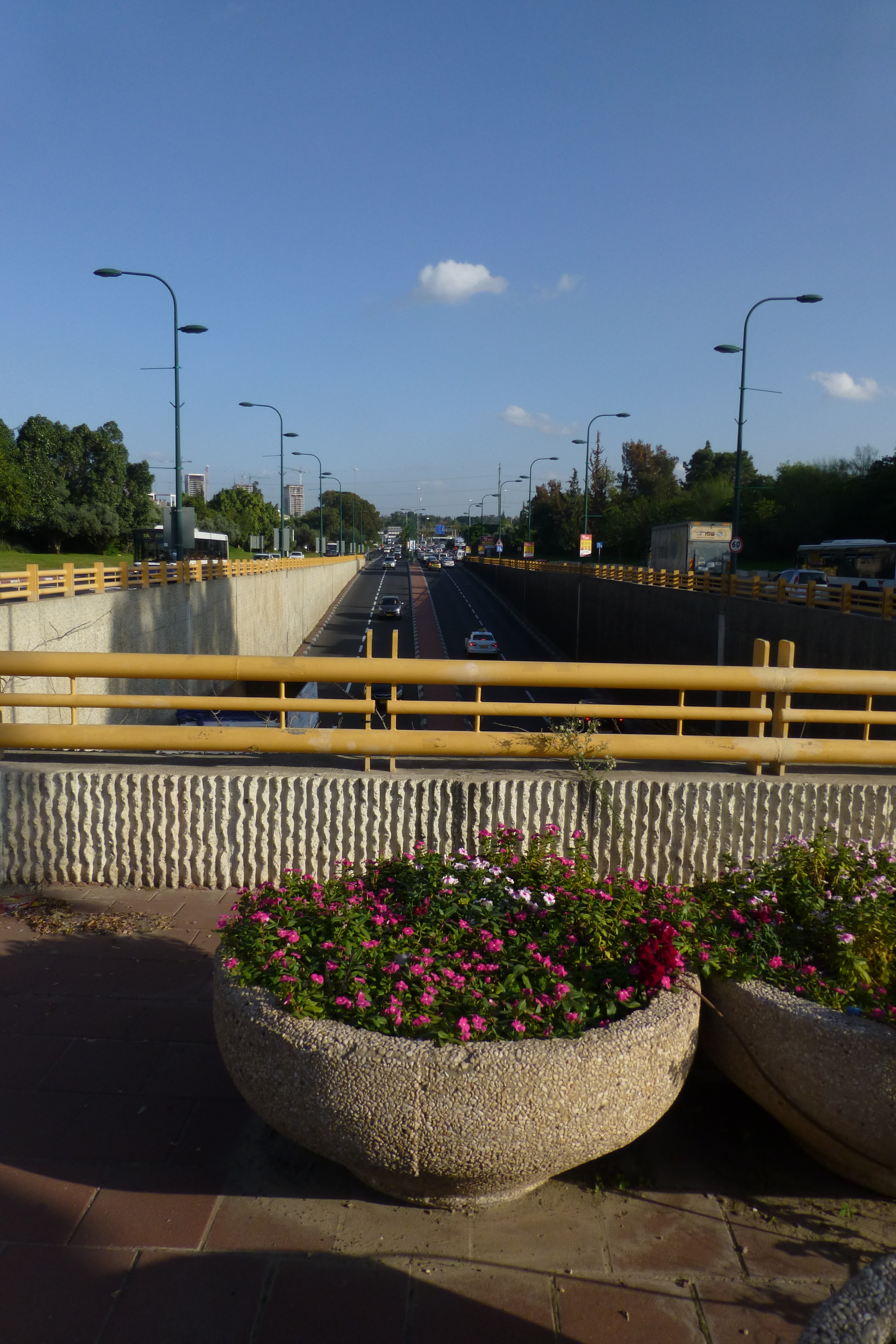 Aluf Sadeh interchange